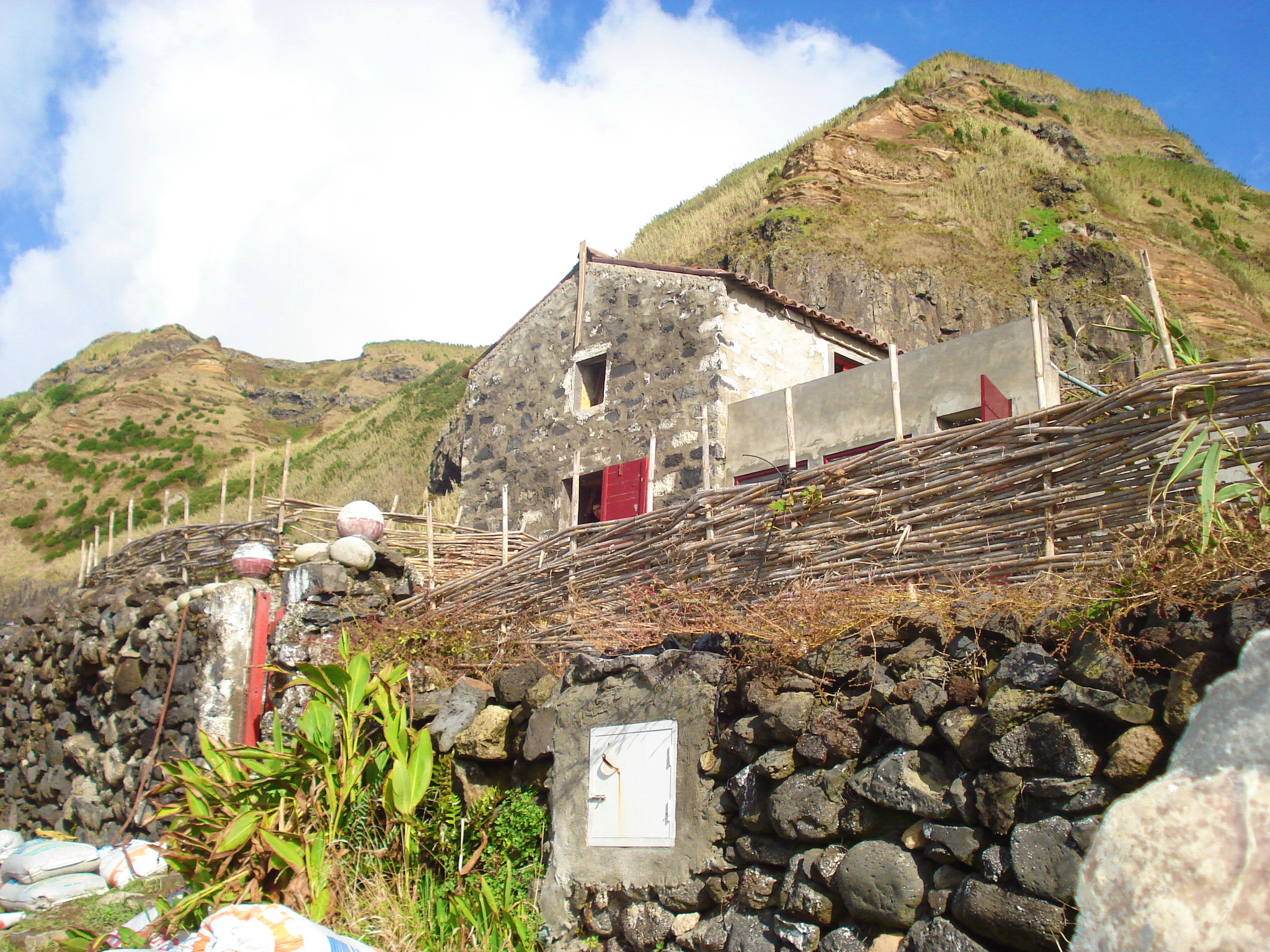 One of the adegas (wine cellars), or summer cottage, in the hamlet of Rocha da Relva, civil parish of Relva, municipality of Ponta Delgada (Azores), Portugal